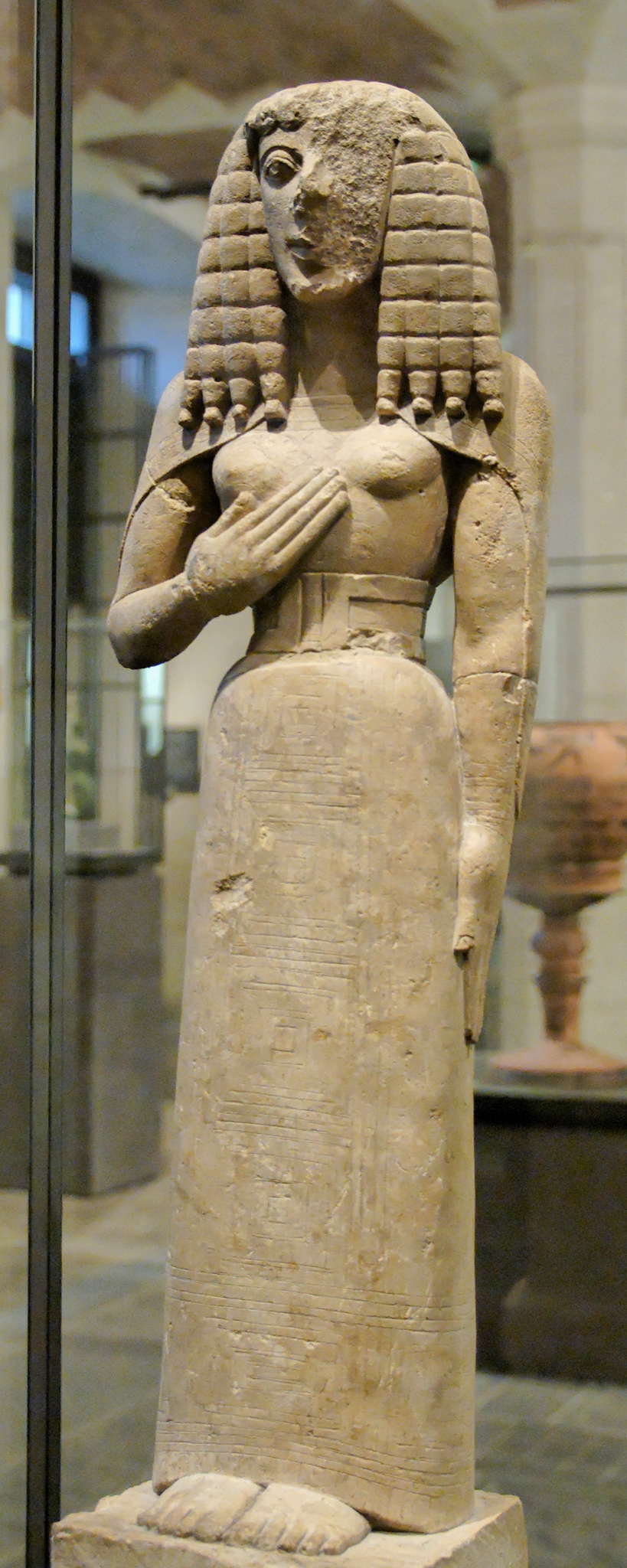 So-called Lady of Auxerre, a female statuette in the Daedalic style. Limestone with incised decoration, formerly painted, ca. 640–630 BC, made in Crete?